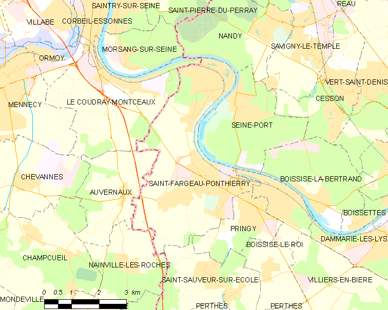 Map of French municipality Saint-Fargeau-Ponthierry